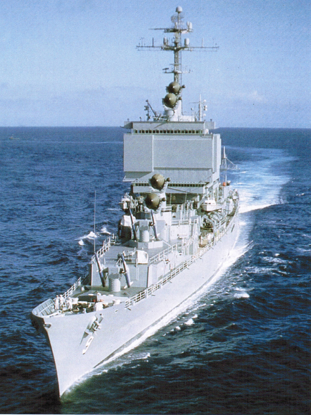 Bow view of the U.S. Navy guided missile cruiser USS Long Beach (CGN-9), circa in the 1960s.